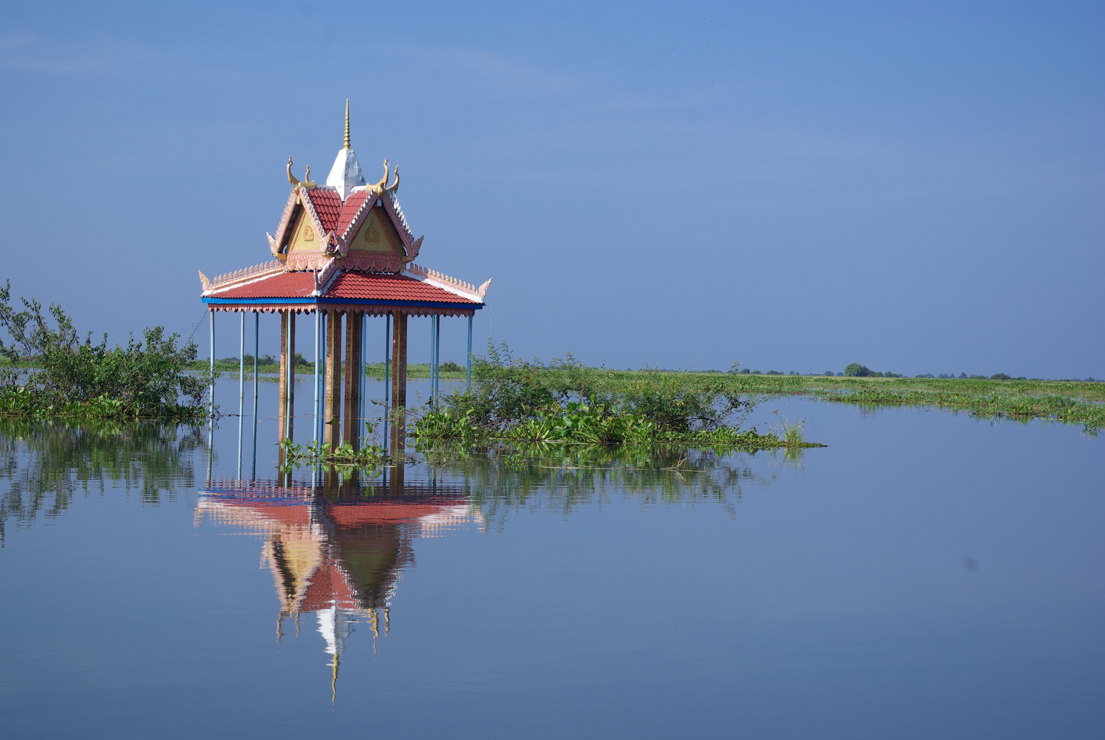 Pavilion in Tonlé Sap, Cambodia.